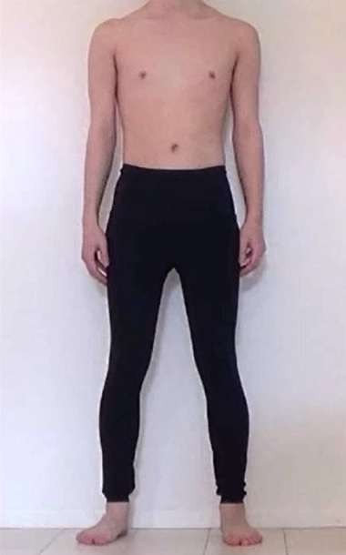 A man wearing black Lululemon spandex tights.